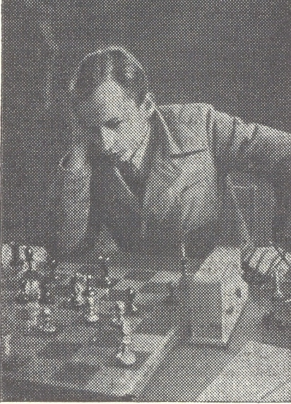 Sergey Mikhailovich Kaminer, chess study composer